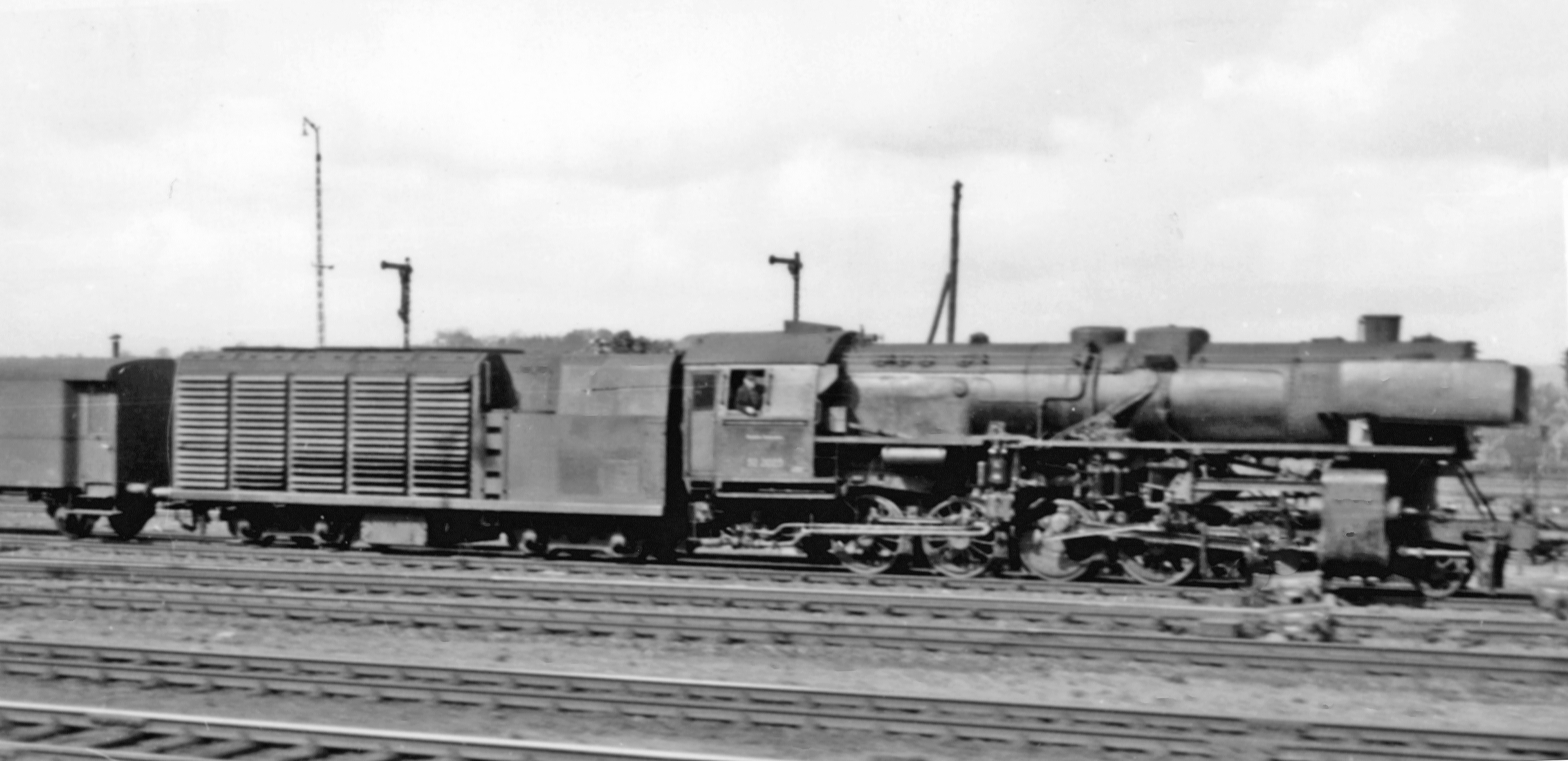 Steam locomotive DRG Class 52 with condensing tender at Altenbeken train station. This was the junction of the Hamm-Paderborn-Hoexter line with the Herford-Warburg line.